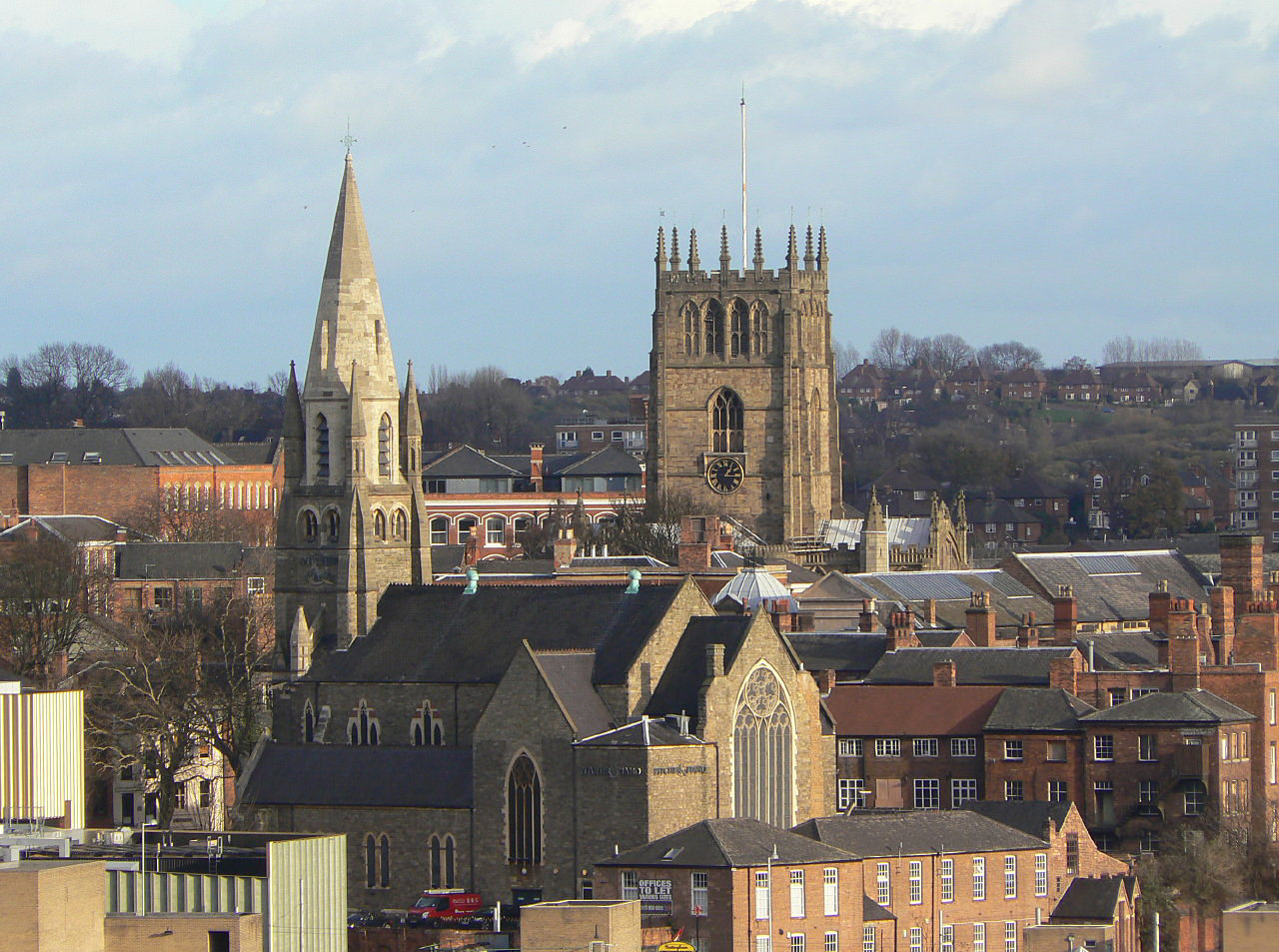 Roofscape of part of Nottingham, England. In the foreground is the Gothic Revival former Unitarian chapel in High Pavement, which was converted first into the Nottingham Lace Museum and later into a bar and restaurant. Beyond it centre right is the crossing tower of the parish church of St Mary the Virgin in the Lace Market.